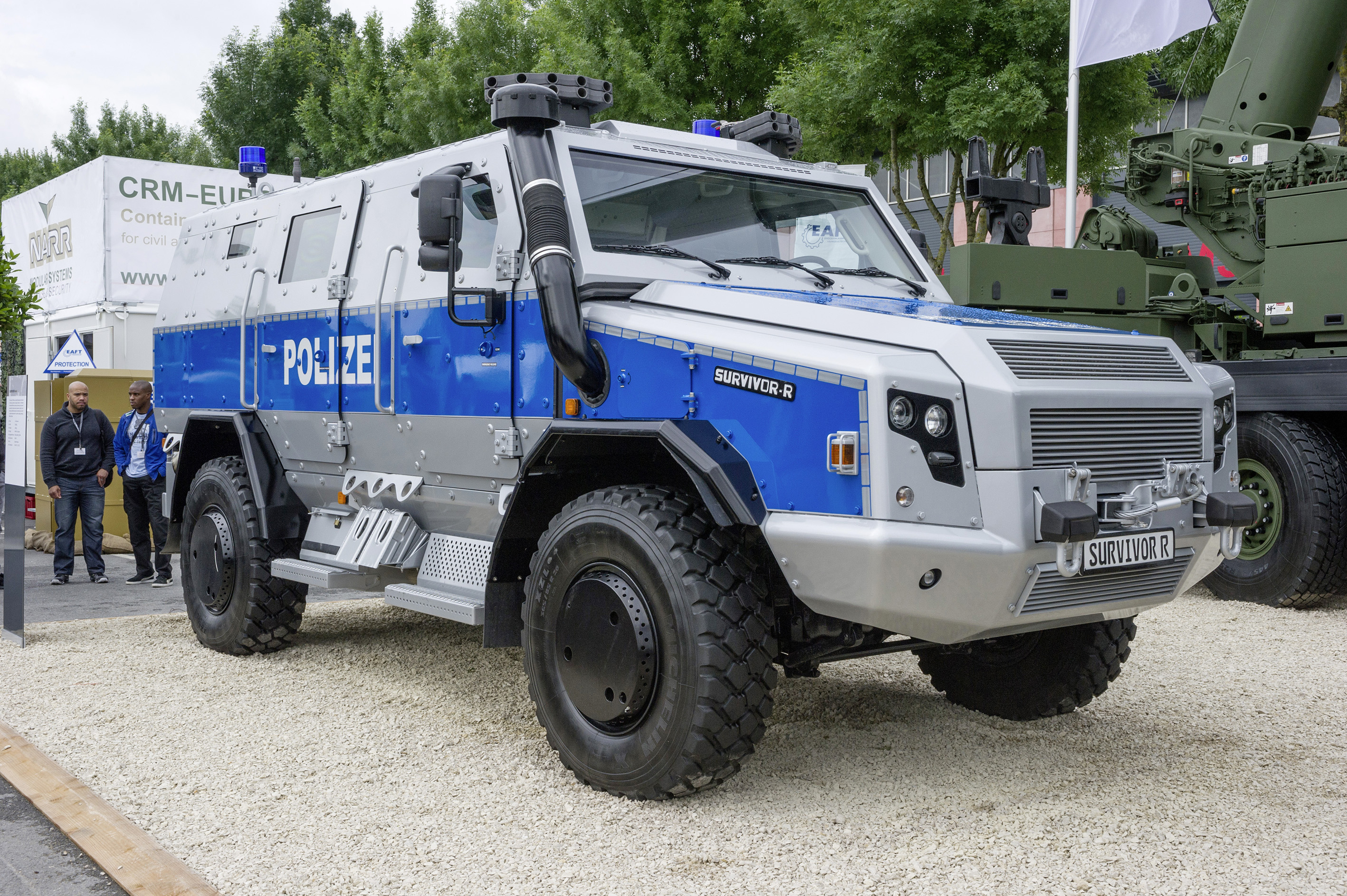 As displayed at Eurosatory 2016, Survivor R in Police/internal security configuration.